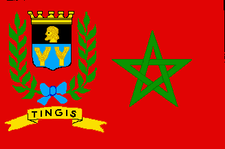 Merchant ensign of Tangier International zone, according Phlippe and Neubecker